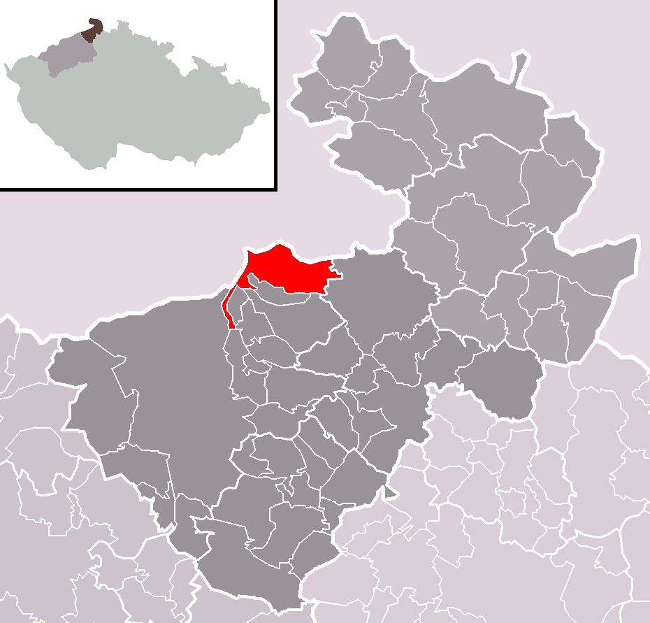 Location of Hřensko municipality within Děčín District and administrative area of Děčín as a Municipality with Extended Competence.